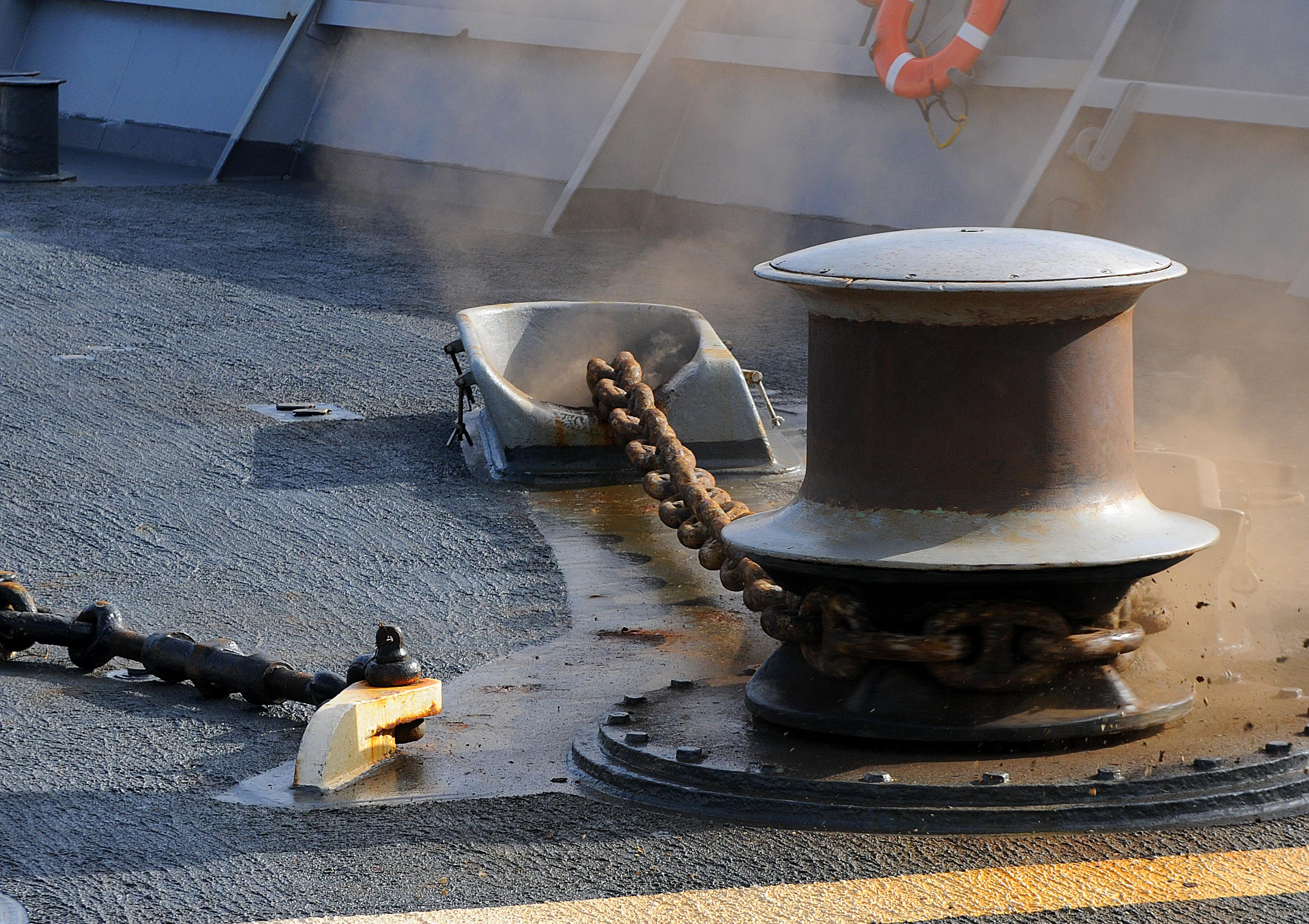 The anchor chain slides around its capstan as the anchor is dropped from the guided missile frigate USS Underwood (FFG 36) Aug. 6, 2012, as the ship arrives in Cartagena, Colombia, for a scheduled port visit. Underwood was deployed to South America in support of Southern Seas 2012, a U.S. Southern Command-directed operation designed to strengthen relationships with regional partner nations and improve operational readiness for all assigned units.